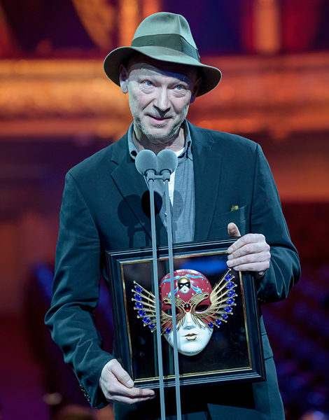 Luk Persival 2014